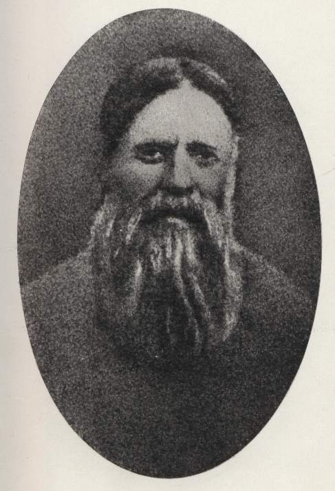 Vasil Glavinov